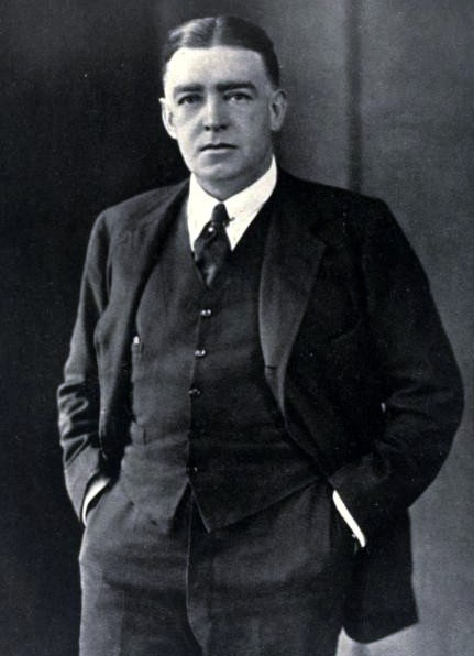 Sir Ernest Henry Shackleton, aged 47.